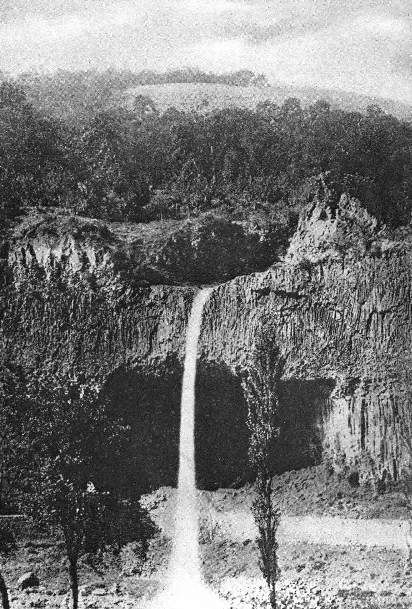 Image from scanned version of "A Book of The Cevennes" by Sabine Baring-Gould from published in 1907 and in the Public Domain. Image has been cropped, sharpened slightly, and sepia tone removed.